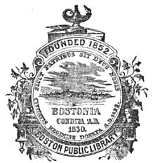 Logo of the Boston Public Library, est. 1852